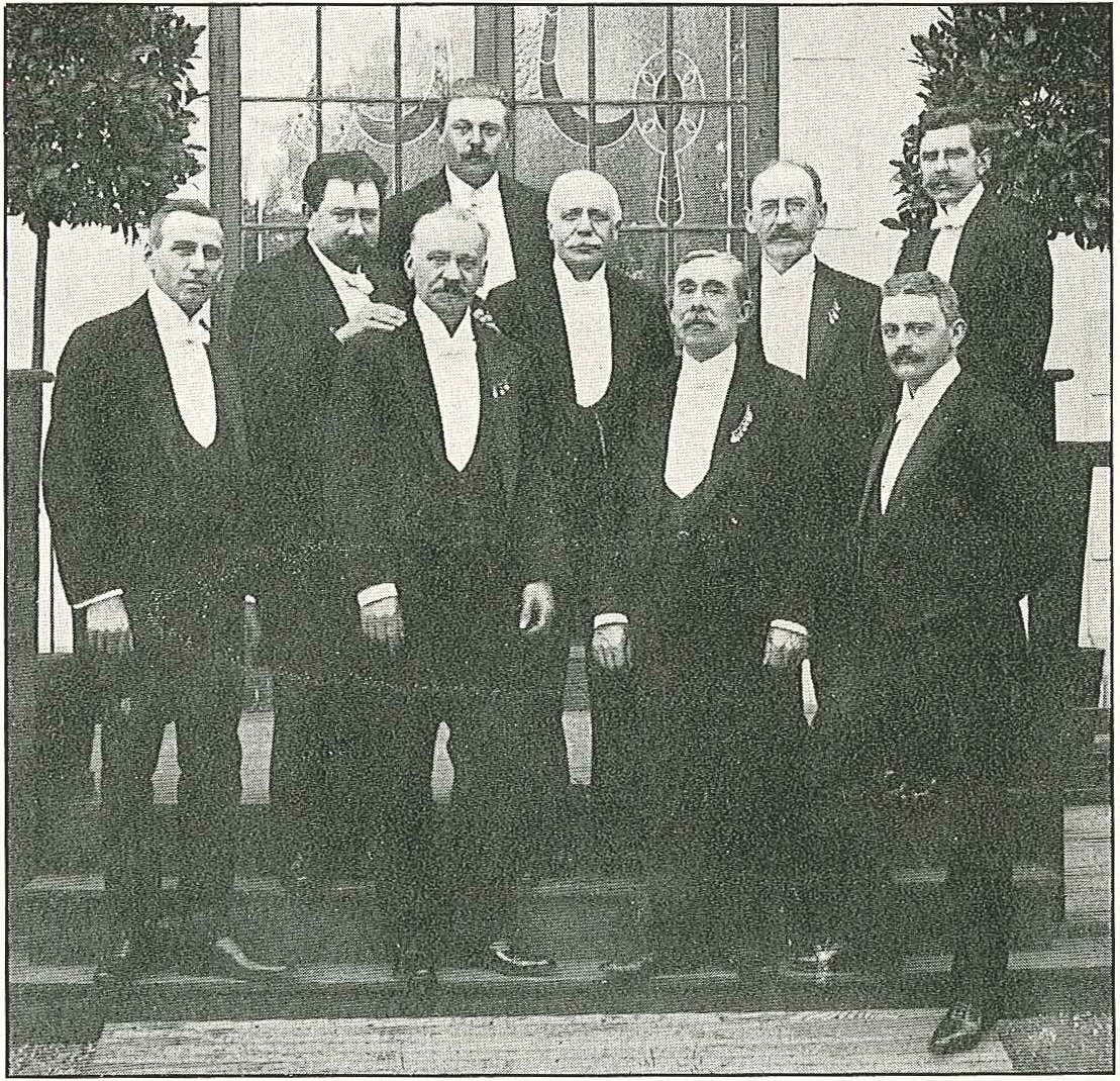 Group photo of participants at the chamber music festival in Ystad in 1910. Back row from left: Tor Aulin, Frans Larsén, Sven August Körling, Salomon Smith and Rudolf Claëson. Front row from left: Wilhelm Stenhammar, Franz Xaver Neruda, Conrad Nordqvist and Gustaf Molander (musiker).